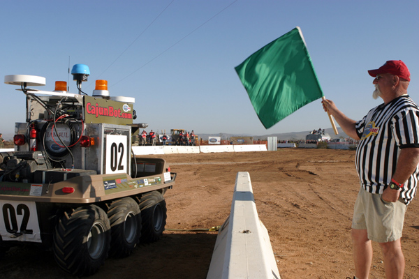 DARPA Grand Challenge Event Day photos CajunBot